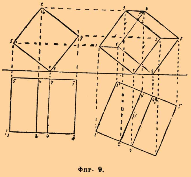 Illustration from Brockhaus and Efron Encyclopedic Dictionary (1890—1907)